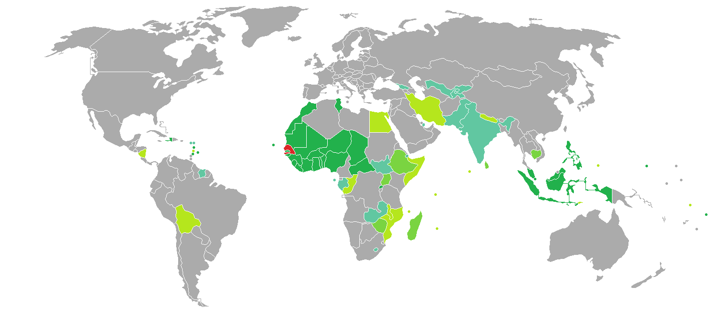 Visa requirements for Senegalese citizens Senegal Visa free access Visa on arrival eVisa Visa available both on arrival or online Visa required